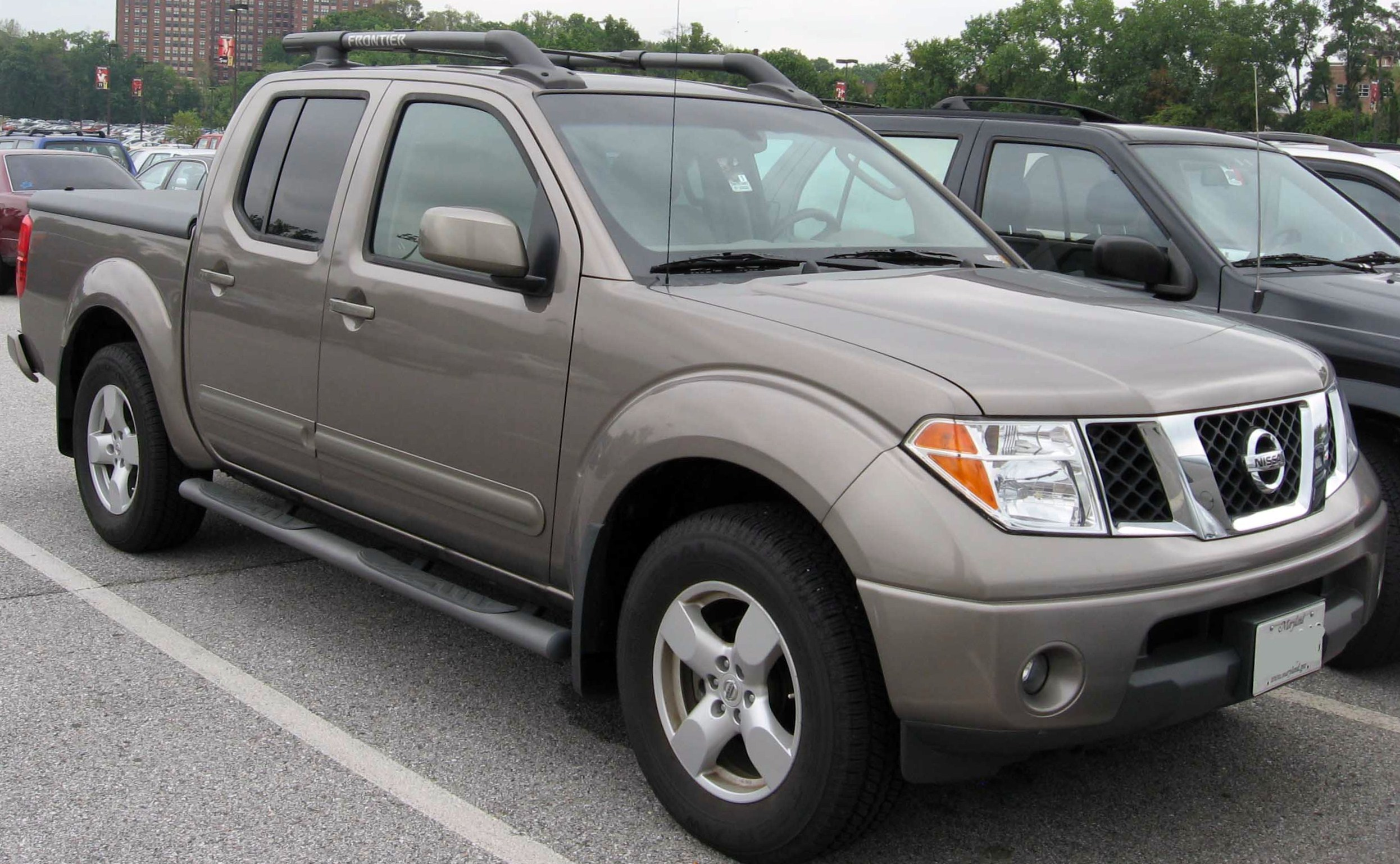 2005-2007 Nissan Frontier photographed in USA.